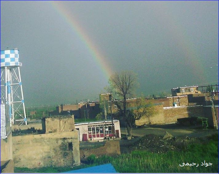 کوشک آباد